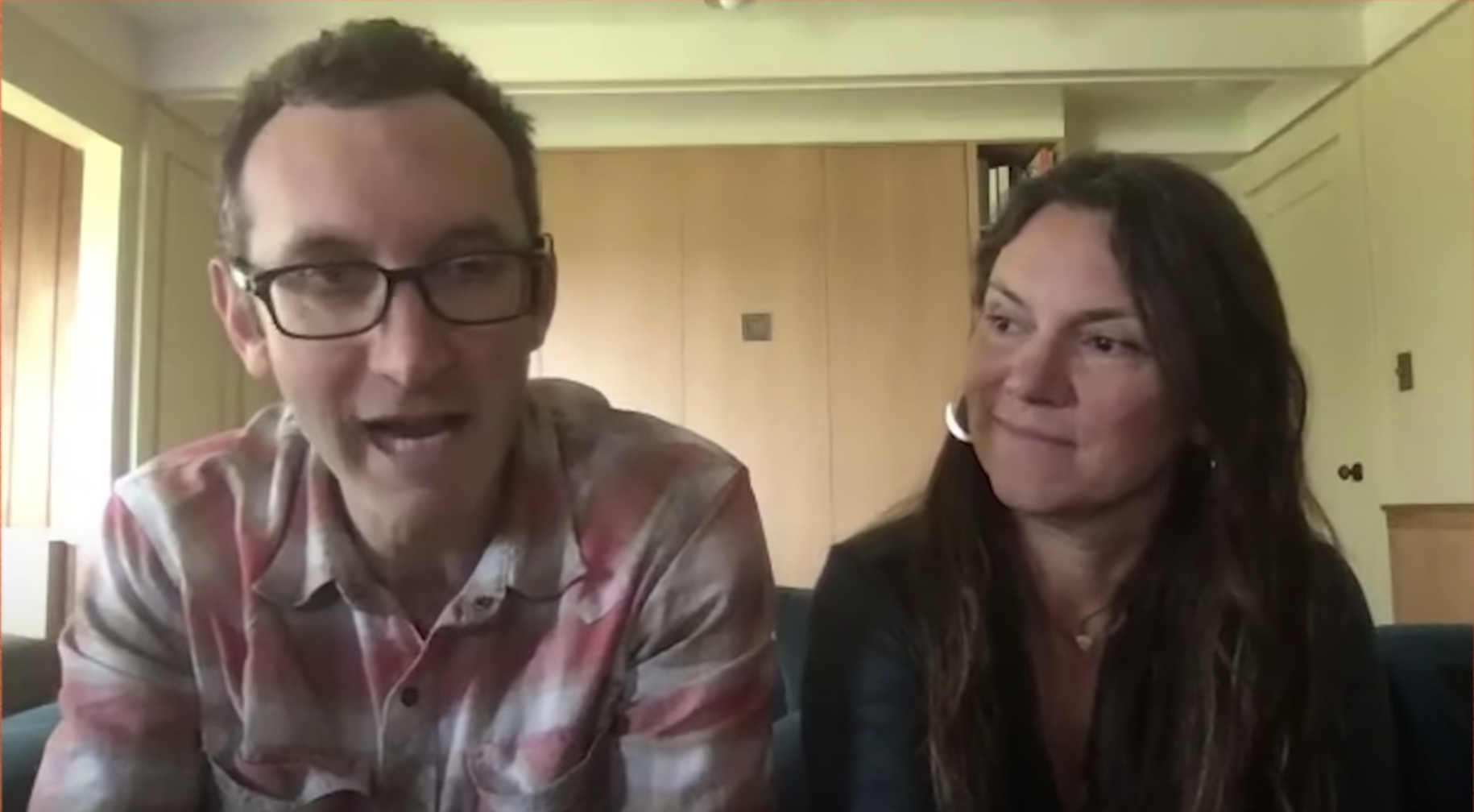 Jesse Moss and Amanda McBaine interviewed by magazine Reason's Youtube channel about a film they directed and produced, Boys State